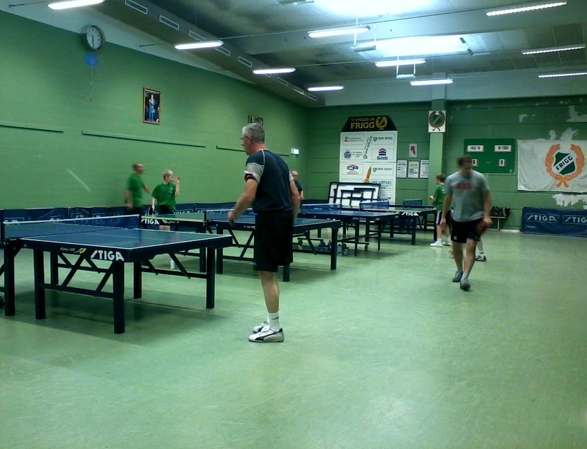 A table tennis match in the B-hall in Karlskrona Idrottshall